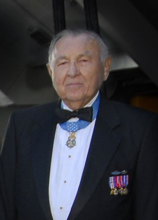 Medal of Honor recipient U.S. Army 1st Lt. Charles Patrick Murray Jr. prior to an awards ceremony held in the hangar bay aboard the USS Midway Museum in San Diego, Calif., May 24, 2008. Murray and six other recipients were to receive the Midway American Patriot Award and The National World War II Museum's American Spirit Award during the black-tie gala, "Beyond the Call of Duty."